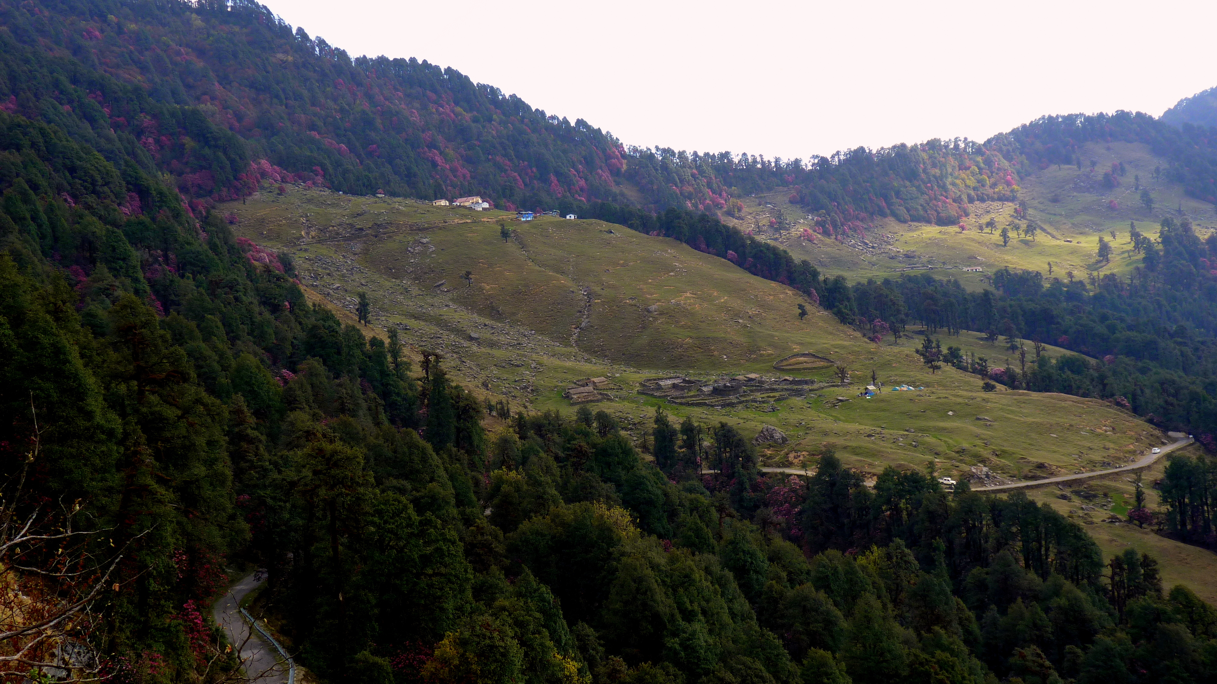 Beautiful Grassland